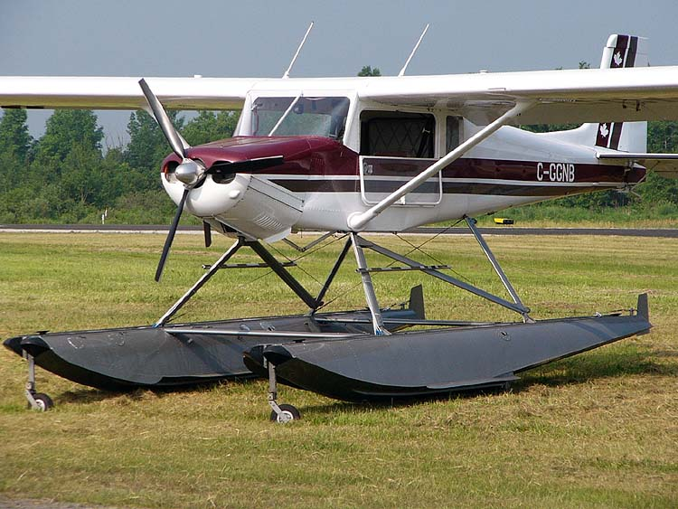 I took this photo at the Brockville Ontario fly-in on 11 June 2005